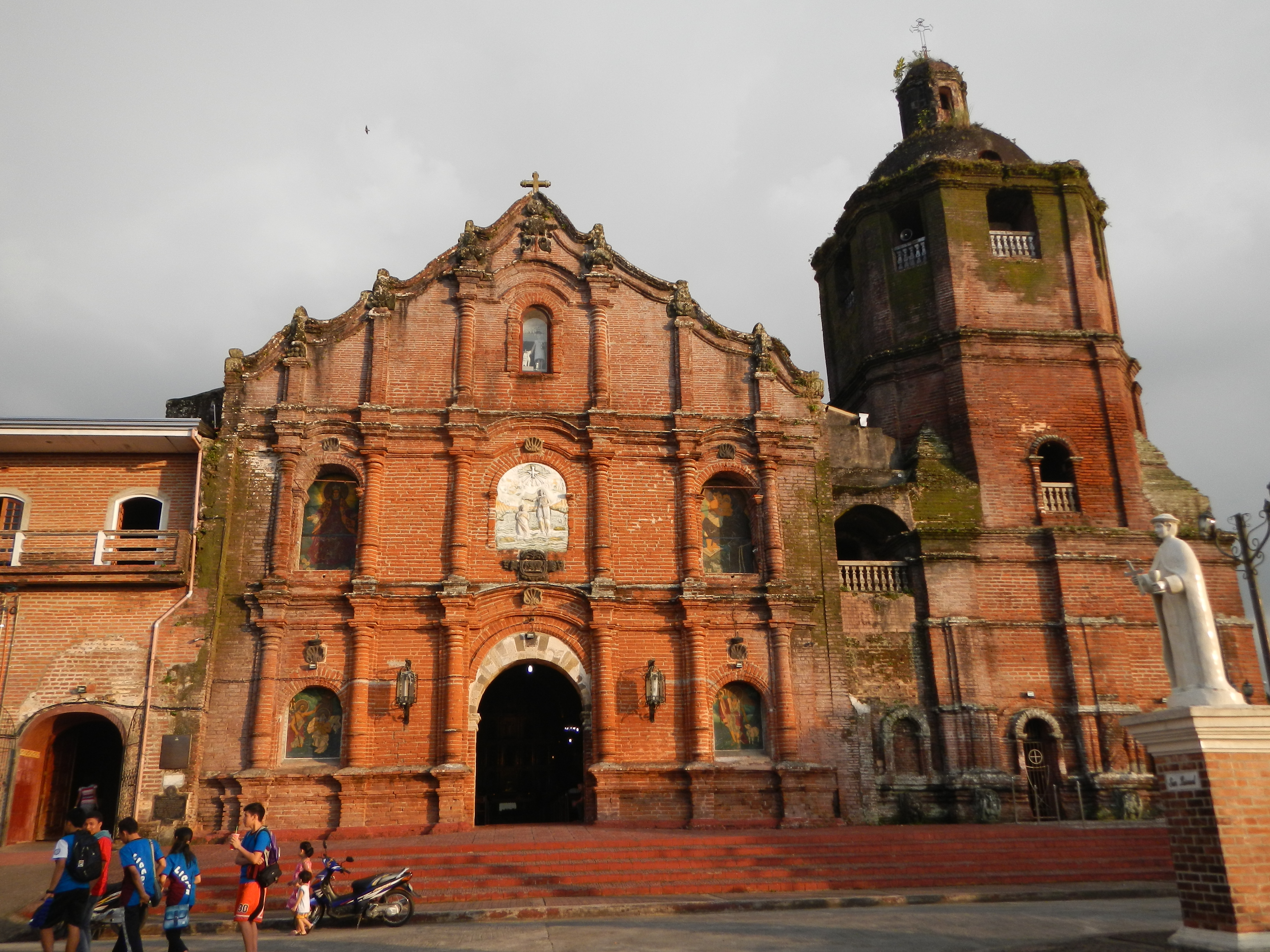 1605 Saint John the Baptist Parish Church of Liliw[1] [2] [3] [4] Poblacion, Liliw, [5] 4004, Laguna [6] [7] belongs to the [8] Roman Catholic Diocese of San Pablo - ------ Liliw, Laguna [9] (fourth class municipality in the province of Laguna,[10] Philippines subdivided into 33 barangays, founded in 1571 by Gat Tayaw, nestled at the foot of Mount Banahaw,[11] latest census, population of 33,851 total land area of 88.5 sq. miles [12] Coordinates: 14°7'15"N 121°27'40"E ‘Tsinelas’: Liliw, Laguna’s pride History of Liliw [13] Capilla de Buenaventura, Saint John the Baptist Parish Church of Liliw [14] Geographical location: Laguna, Region 4, Philippines, Asia Ggeographical coordinates: 14° 7' 55" North, 121° 26' 8" East.